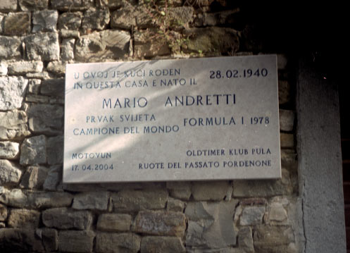 The shield on Mario Andretti's birthplace in Motuvun, Croatia